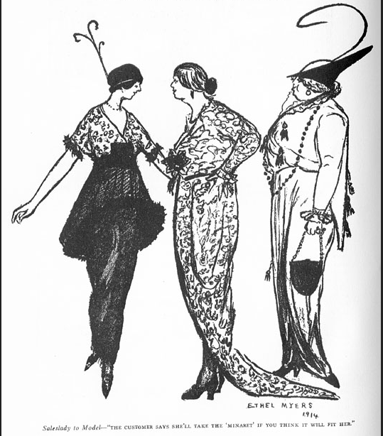 Saleslady to Model - Ethel Myers